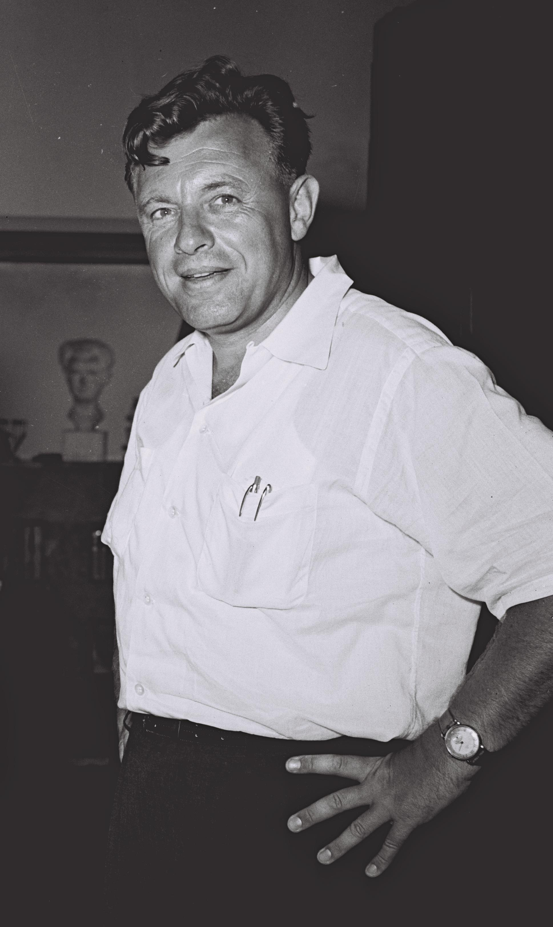 Portrait, Teddy Kollek, director general, prime minister's office.